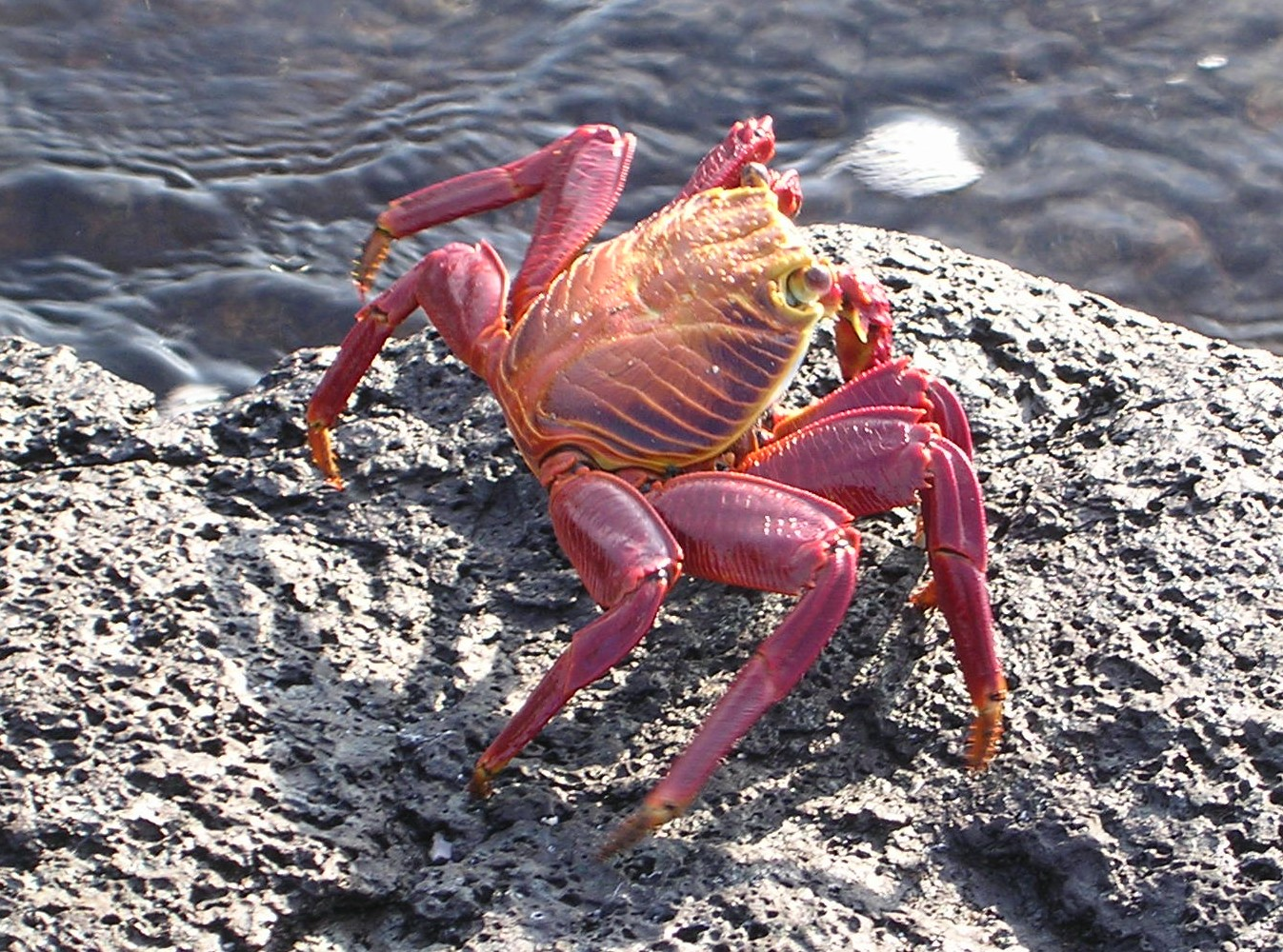 A red rock crab (Grapsus grapsus) in the Galápagos Islands. (es: Zayapa)